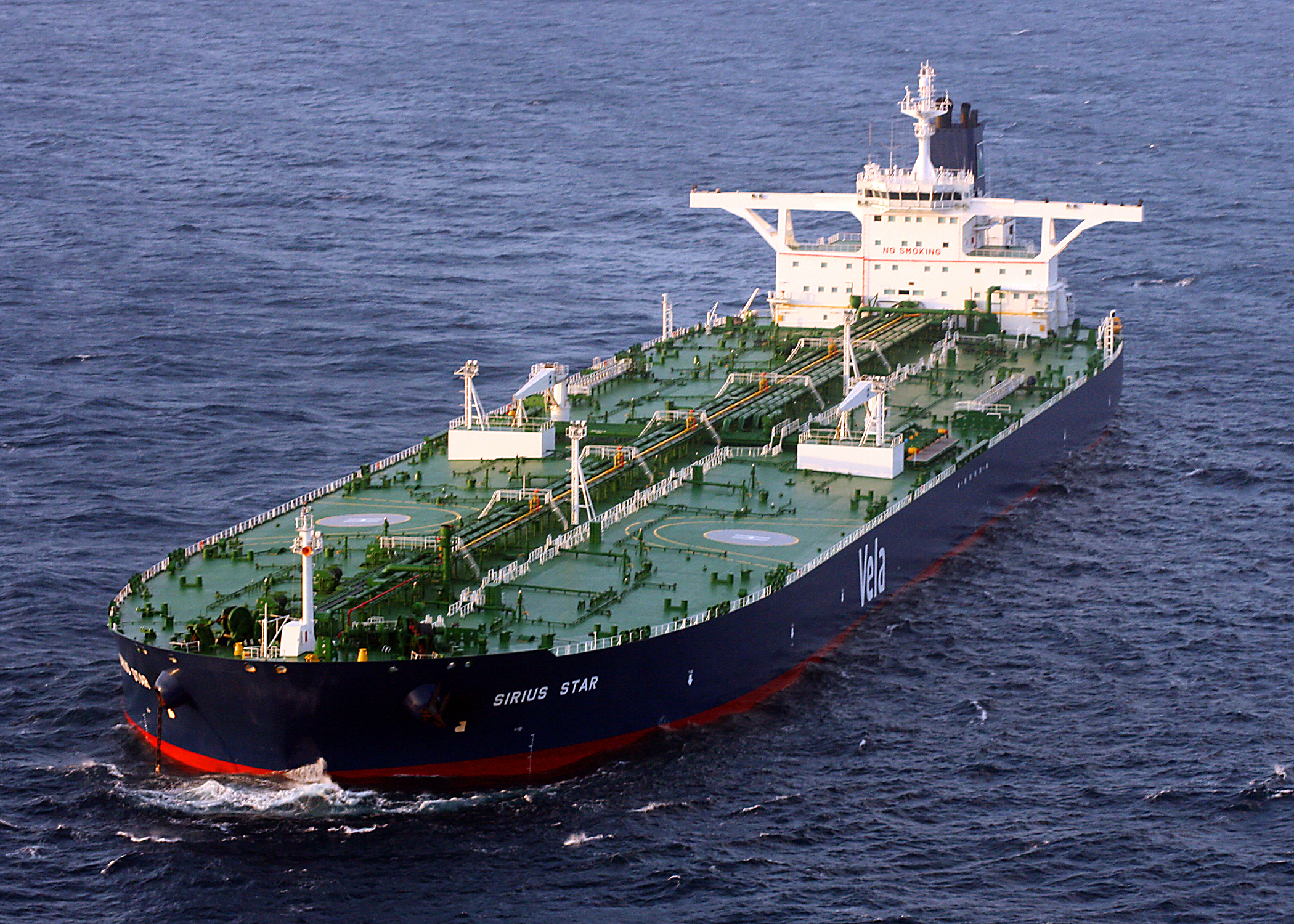 The Liberian-flagged oil tanker MV Sirius Star is at anchor Wednesday, Nov. 19, 2008 off the coast of Somalia. The Saudi-owned very large crude carrier was hijacked by Somali pirates Nov. 15 about 450 nautical miles off the coast of Kenya and forced to proceed to anchorage near Harardhere, Somalia. Indian Ocean. 081119-N-0075S-006